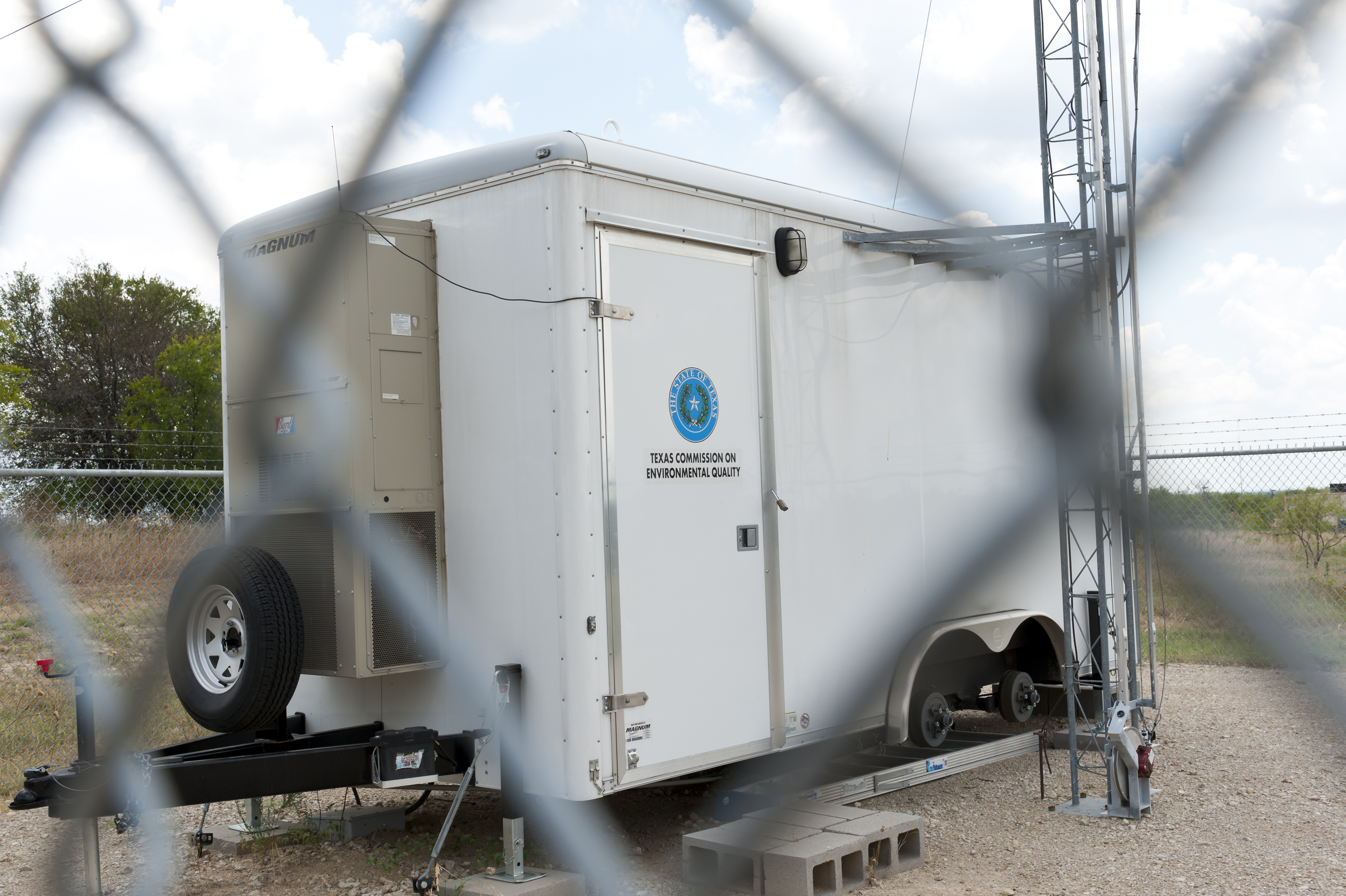 Air quality monitoring equipment at DISH, Texas.